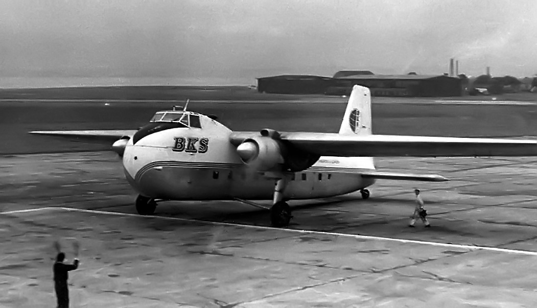 Bristol 170 Mk.31 Freighter, Liverpool 1961